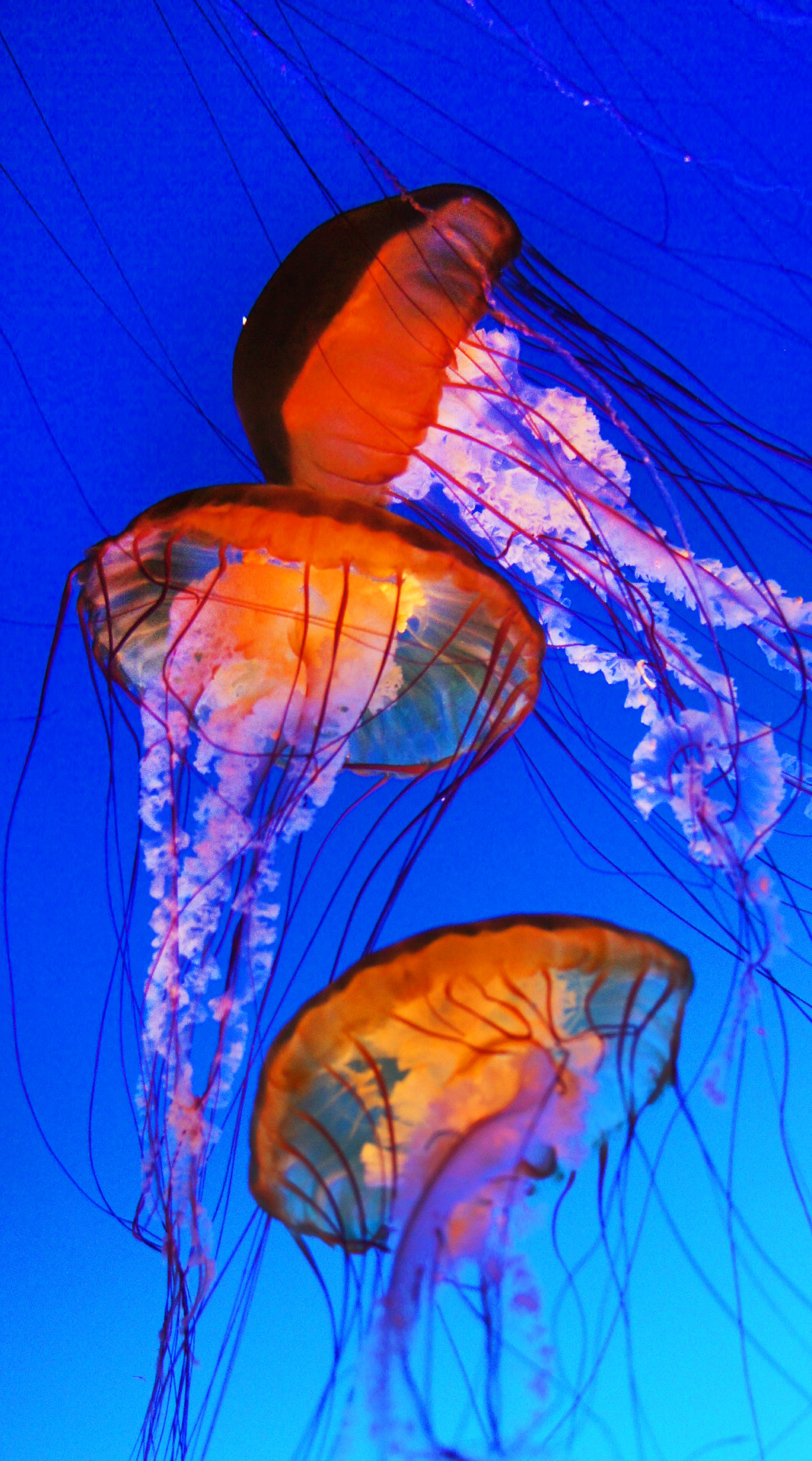 Jellyfish, Henry Doorly Zoo and Aquarium, Omaha NB